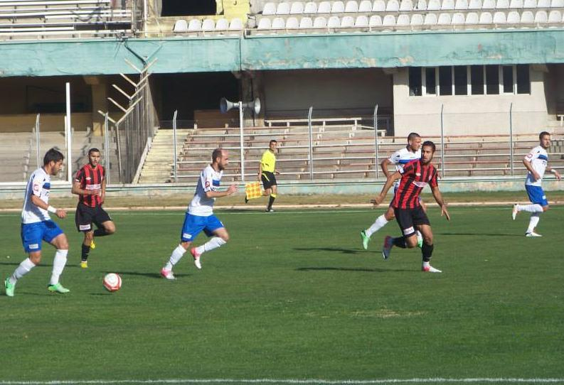 Turkish 3. Lig (3rd League) Ankara Demirspor 1-0 Fatih Karagümrük SK match (2013-2014 season)